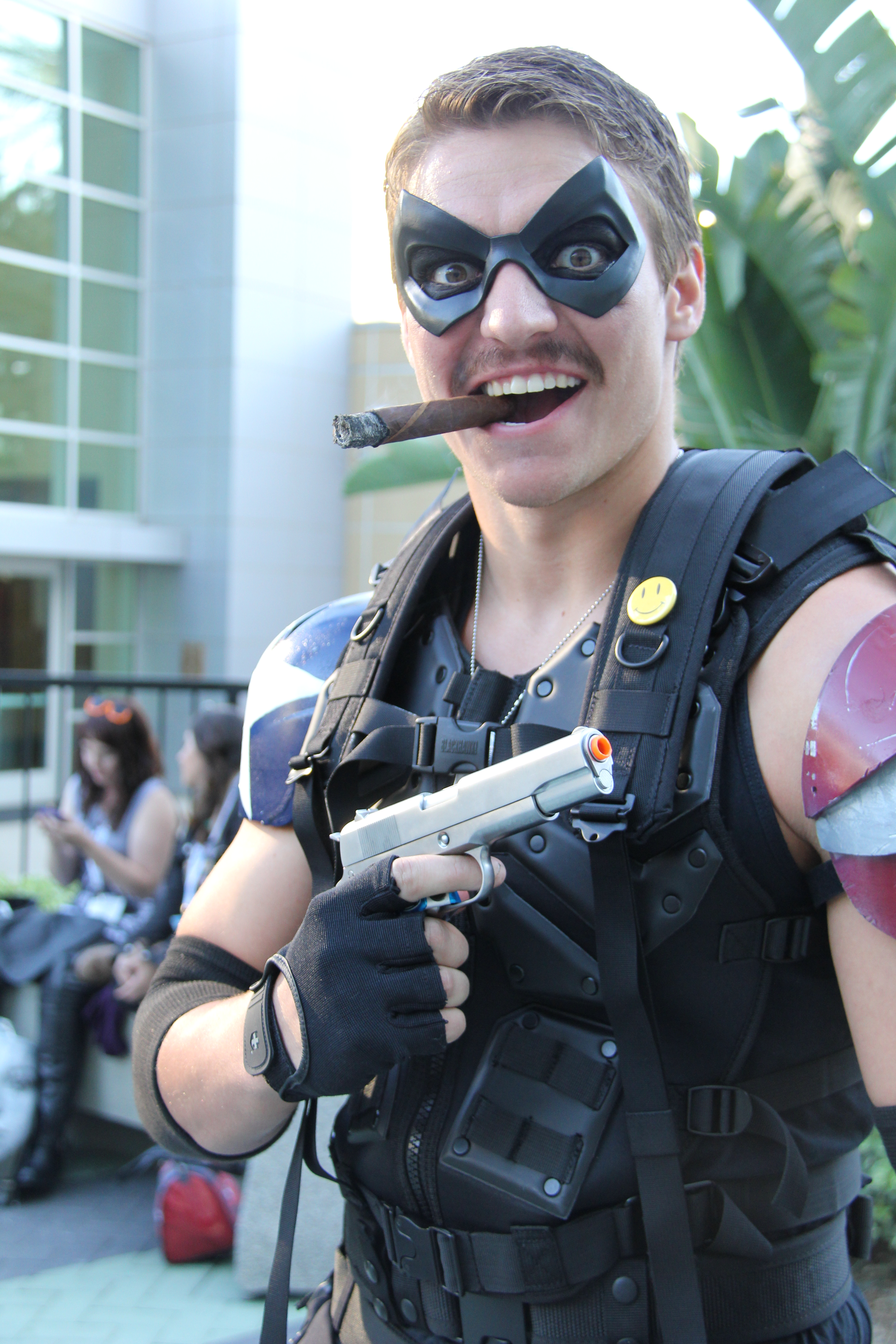 A cosplay of The Comedian from Watchmen